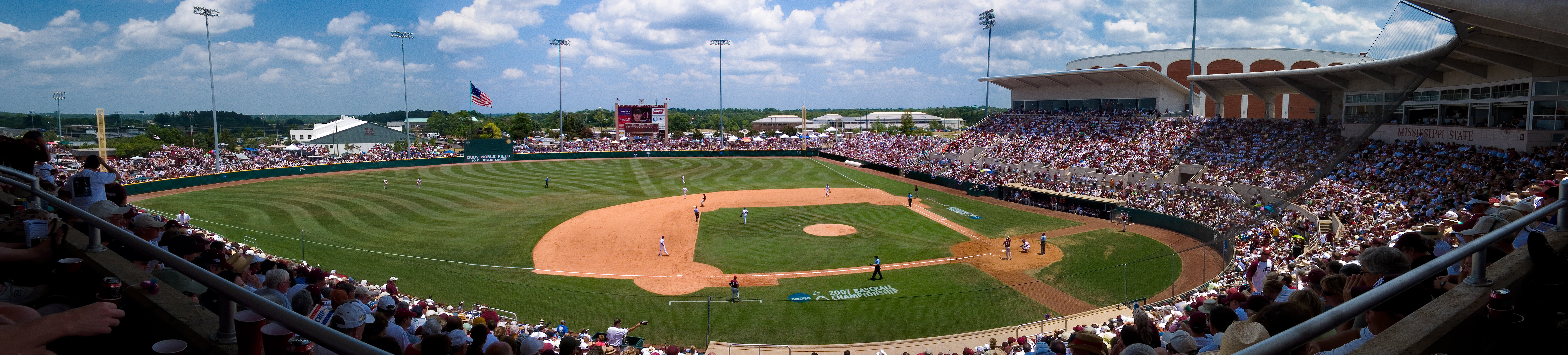 Panorama of Dudy Noble Field/Polk-Dement Stadium at the Super Regional game on June 9th, 2007. Clemson University (5) vs. Mississippi State University (8) - attendance: 13,715